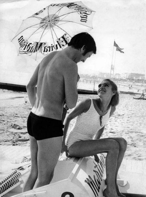 Actors Thommy Berggren and Pia Degermark who played in the film Elvira Madigan (1967).